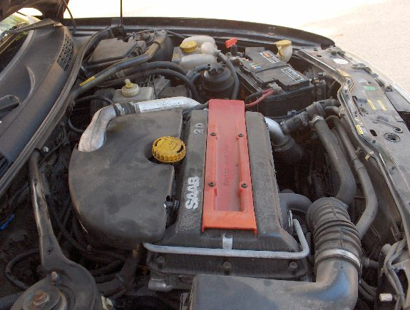 Saab B204 engine in a 1995 Saab 900SE convertible